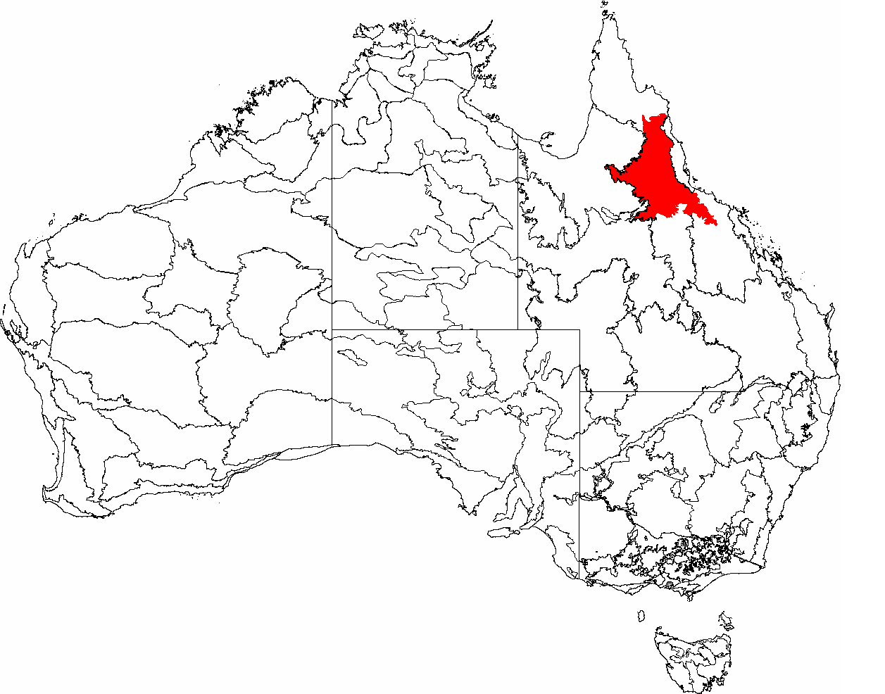 This is a map of the Interim Biogeographic Regionalisation of Australia (IBRA), with state boundaries overlaid. The Einasleigh Uplands region is shown in red.